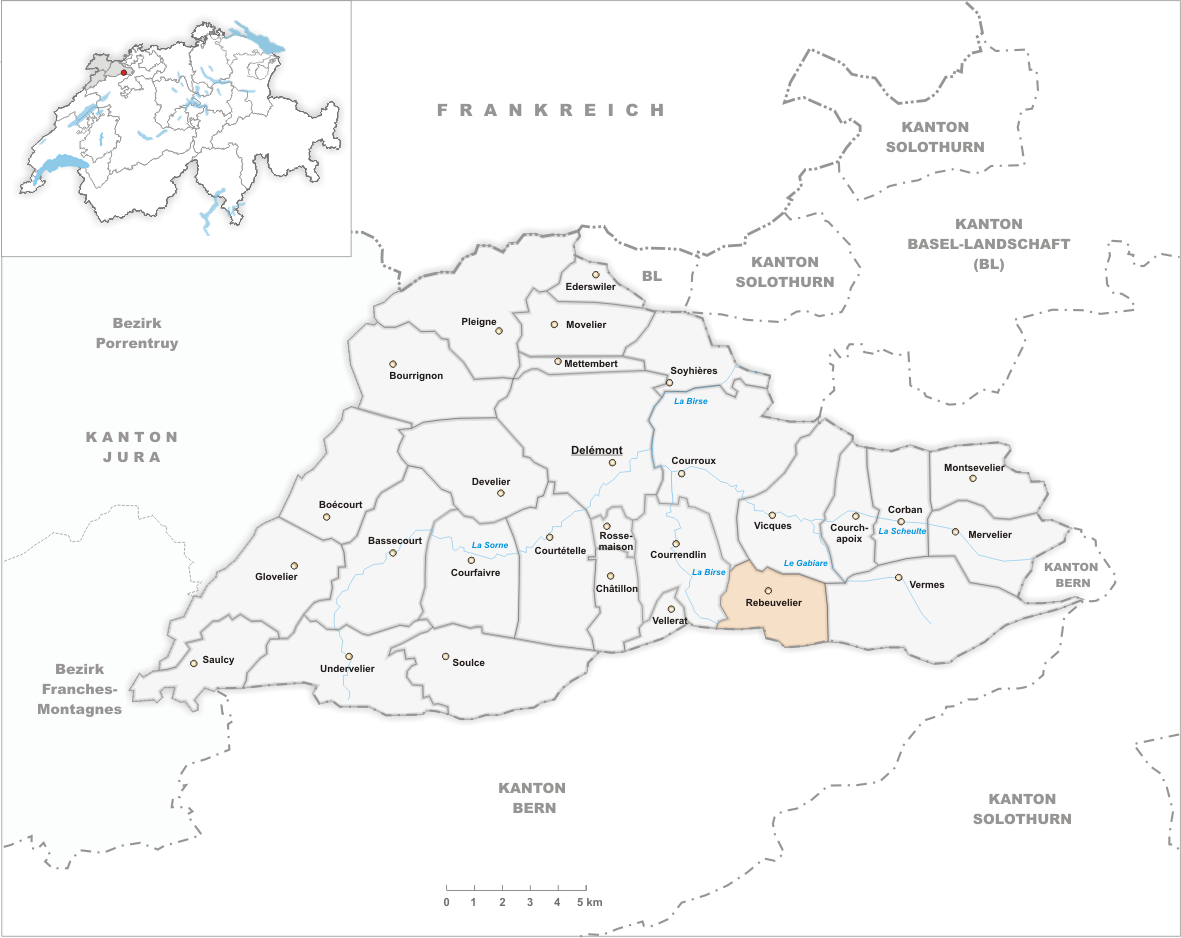 Municipality Rebeuvelier